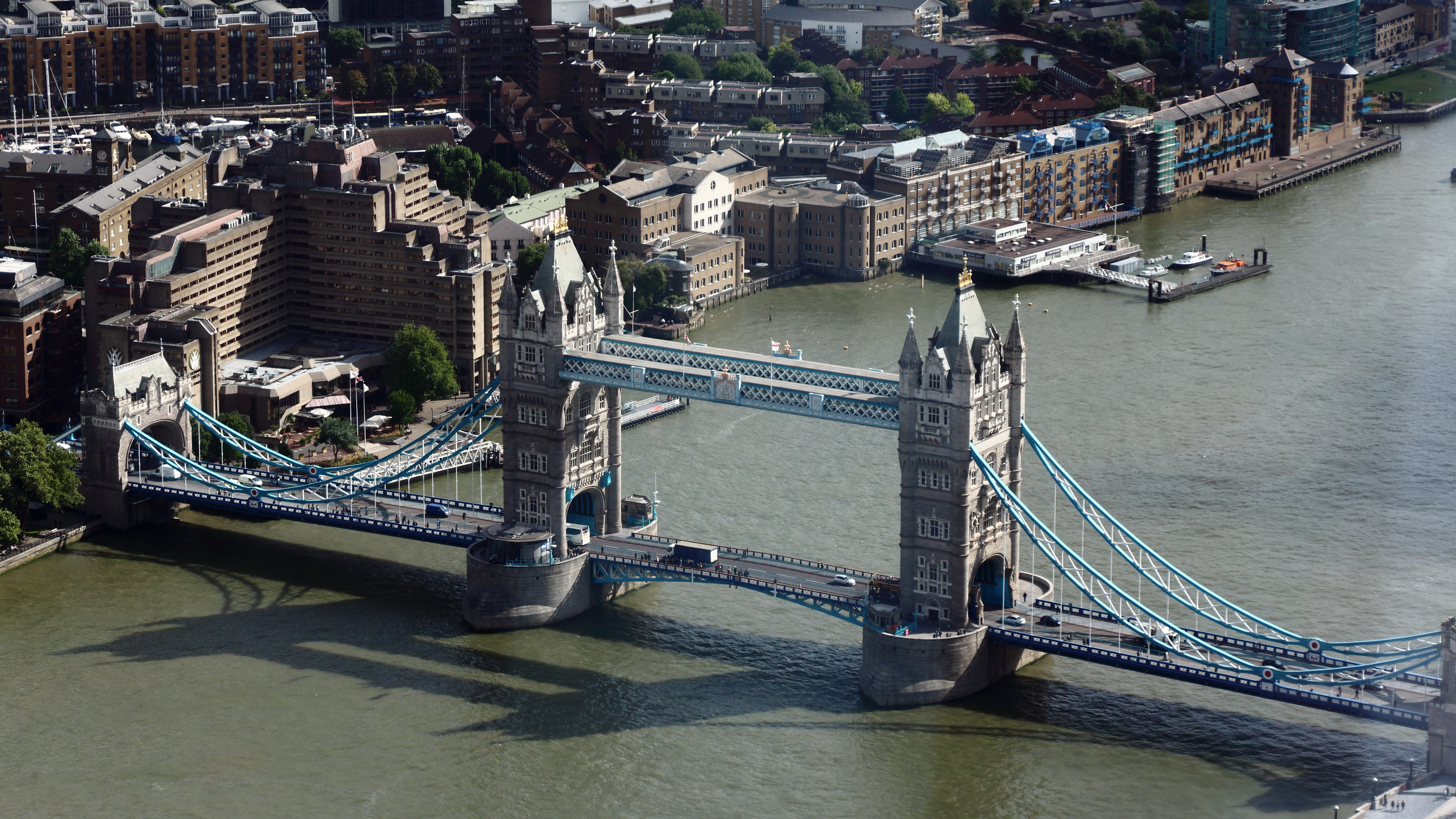 The view from The Shard of Tower Bridge